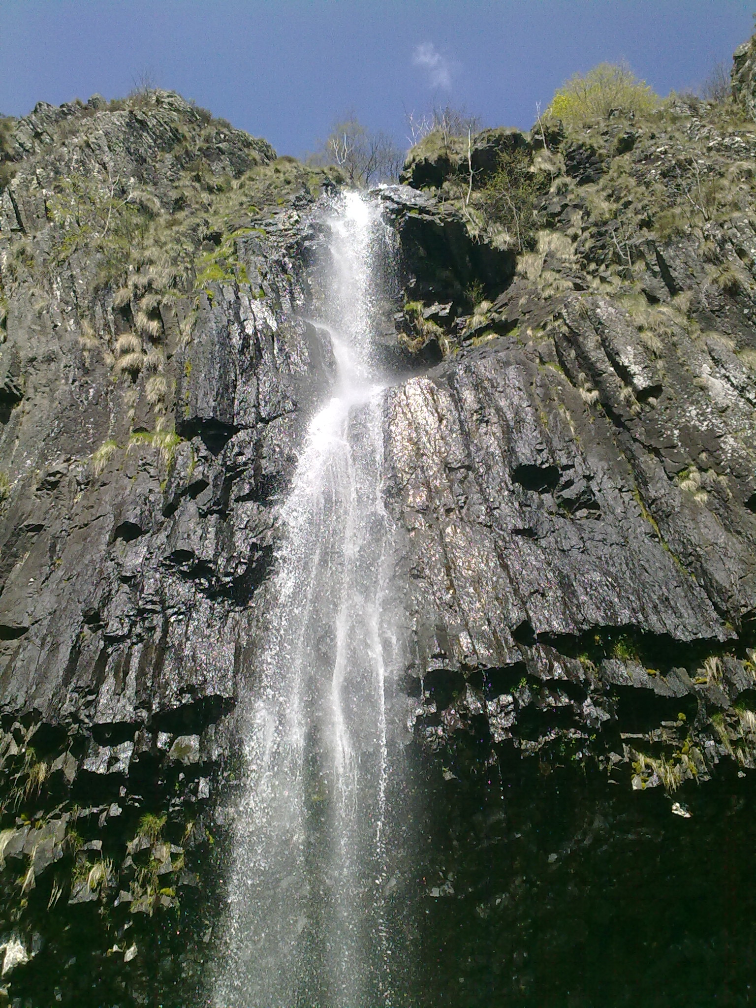 Faillitoux falls, Thiézac, Cantal, France.